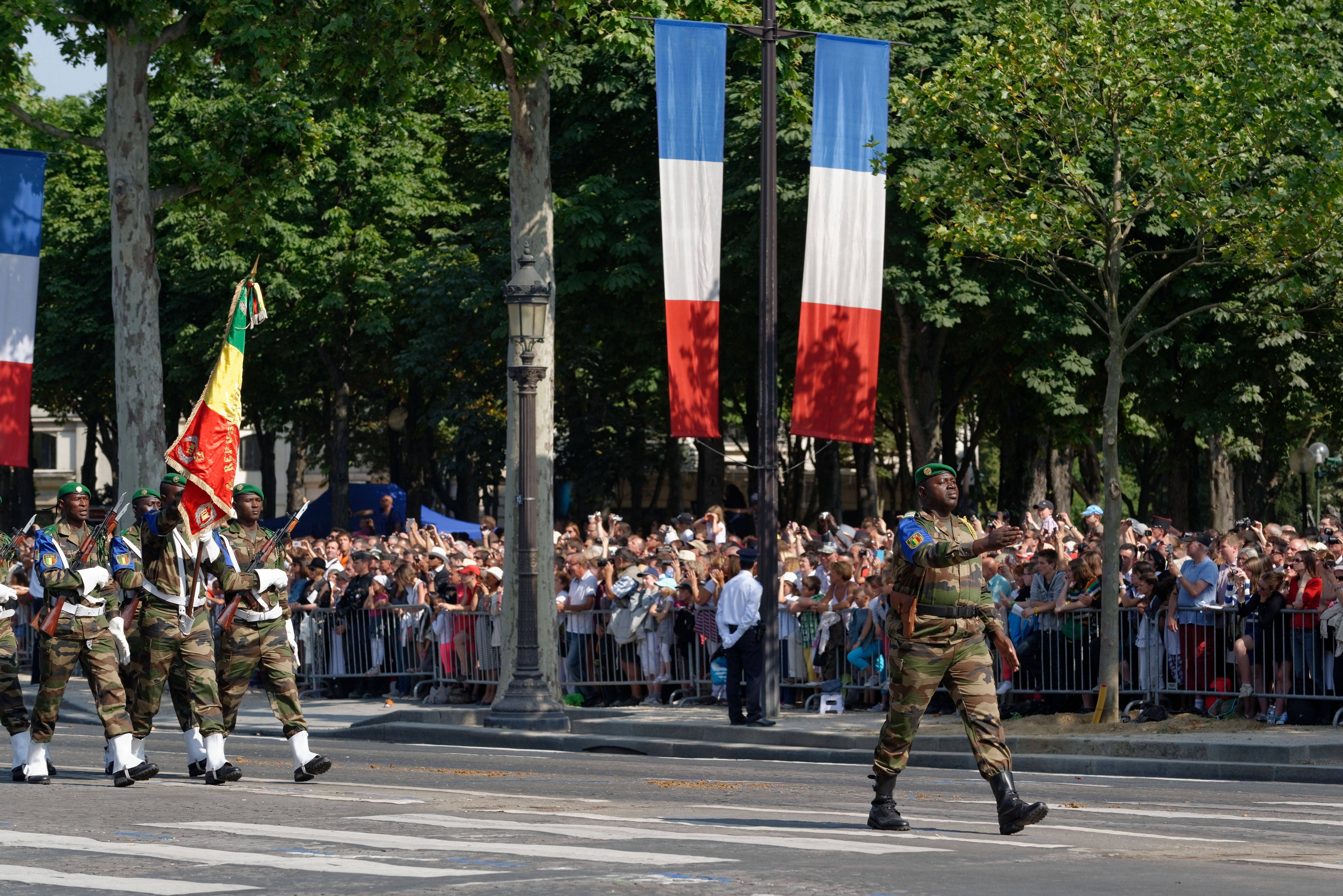 Malian troops taking part in the Bastille Day 2013 military parade on the Champs-Élysées in Paris.